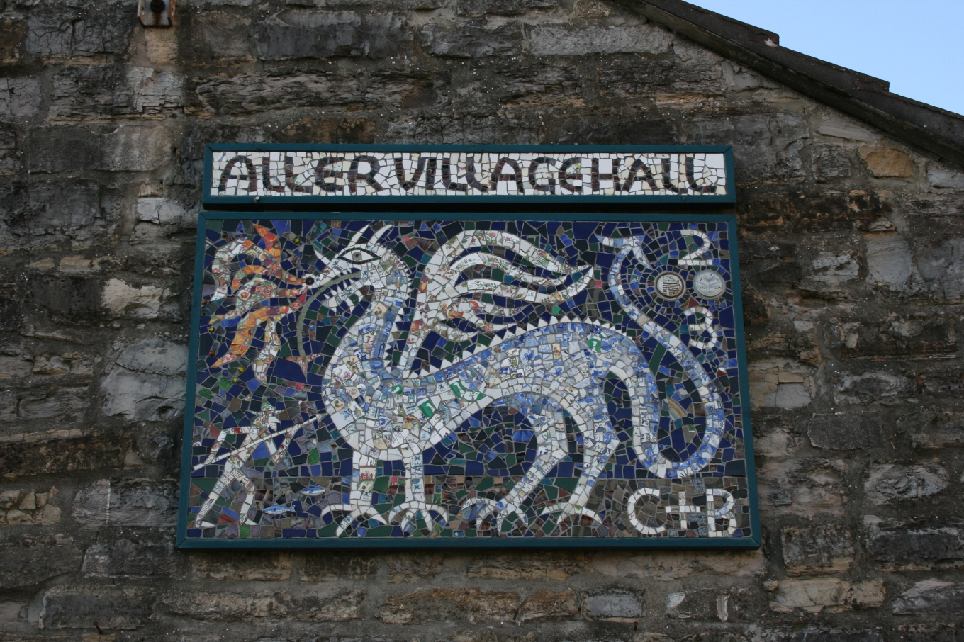 Mosaic panel on Aller Village Hall, Somerset, UK created by Bryan Newman and Chiggy Little